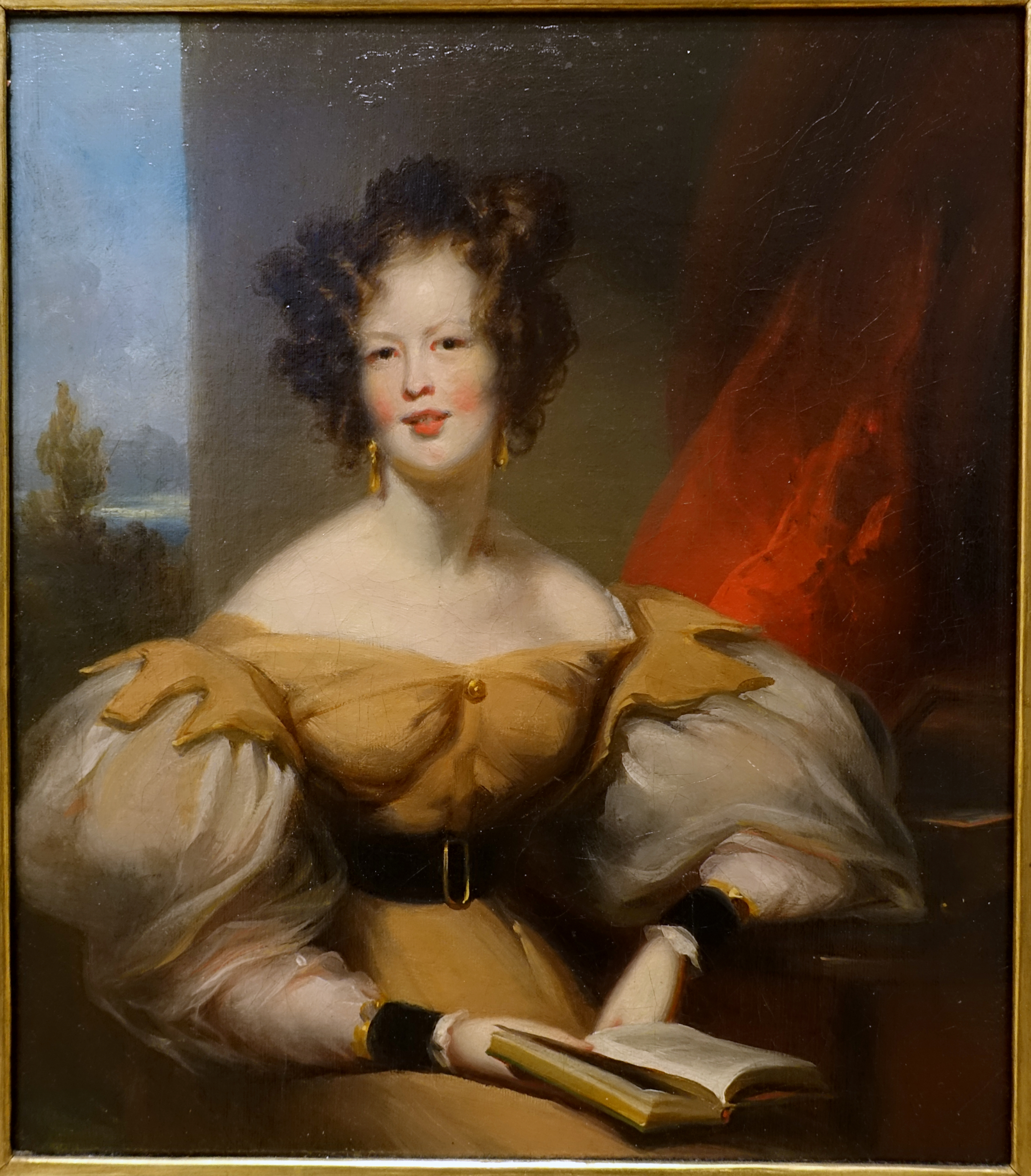 Exhibit in the Peabody Essex Museum - Salem, Massachusetts, USA.